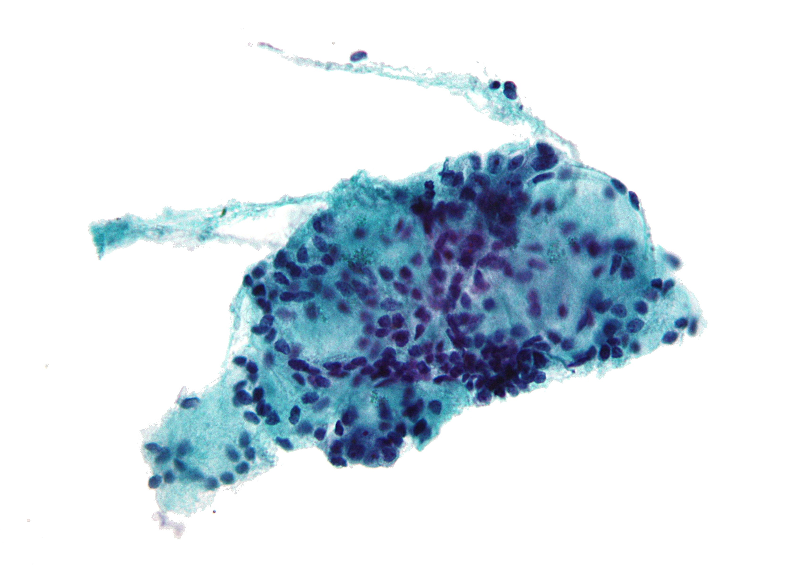 Micrograph of adenoid cystic carcinoma. Pap stain. Related images Acinic cell carcinoma. Adenoid cystic carcinoma.